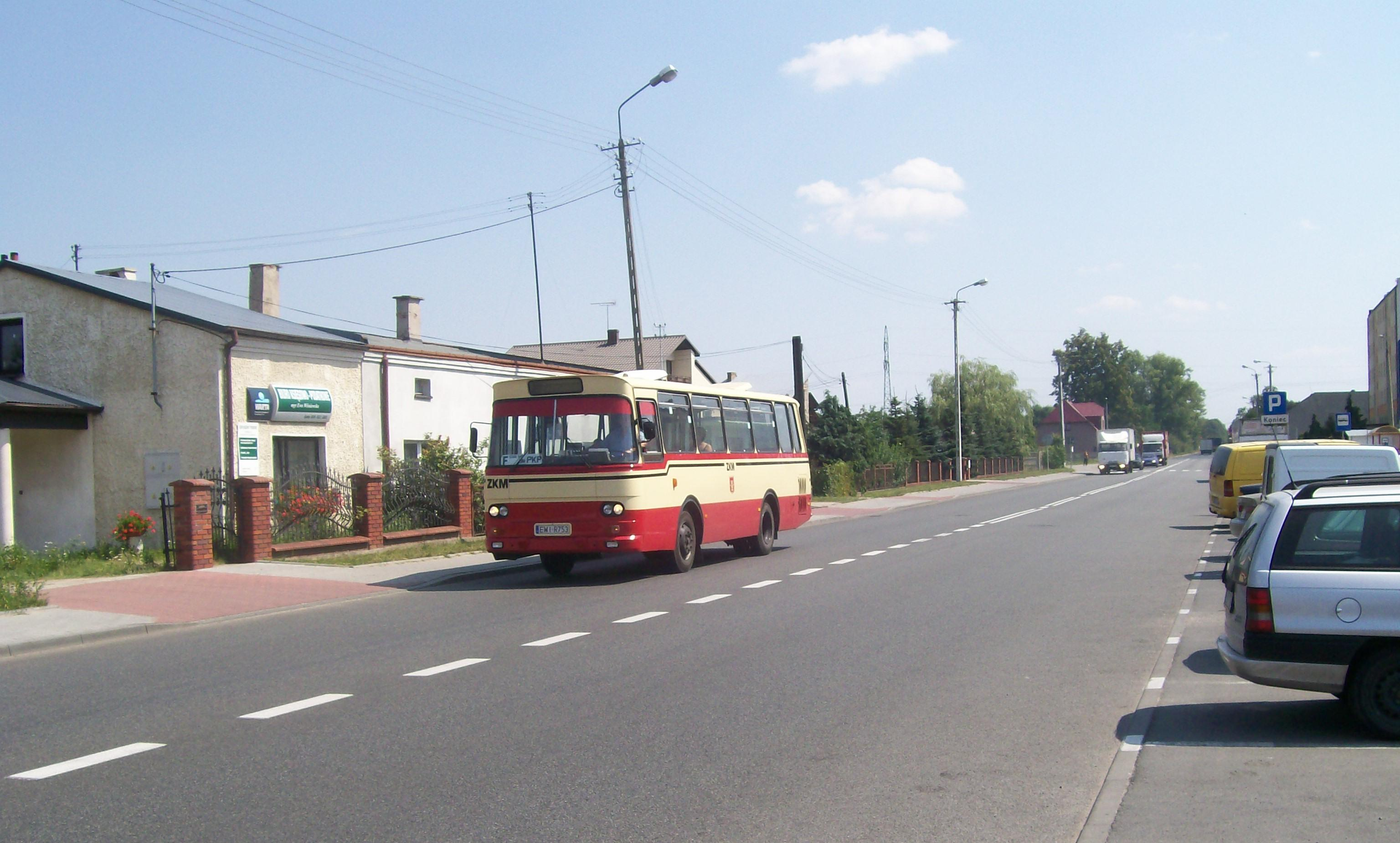 18. Stycznia Street in Wieluń, Poland. Autosan H9-35 city bus (EWI R753). ZKM Wieluń operator.